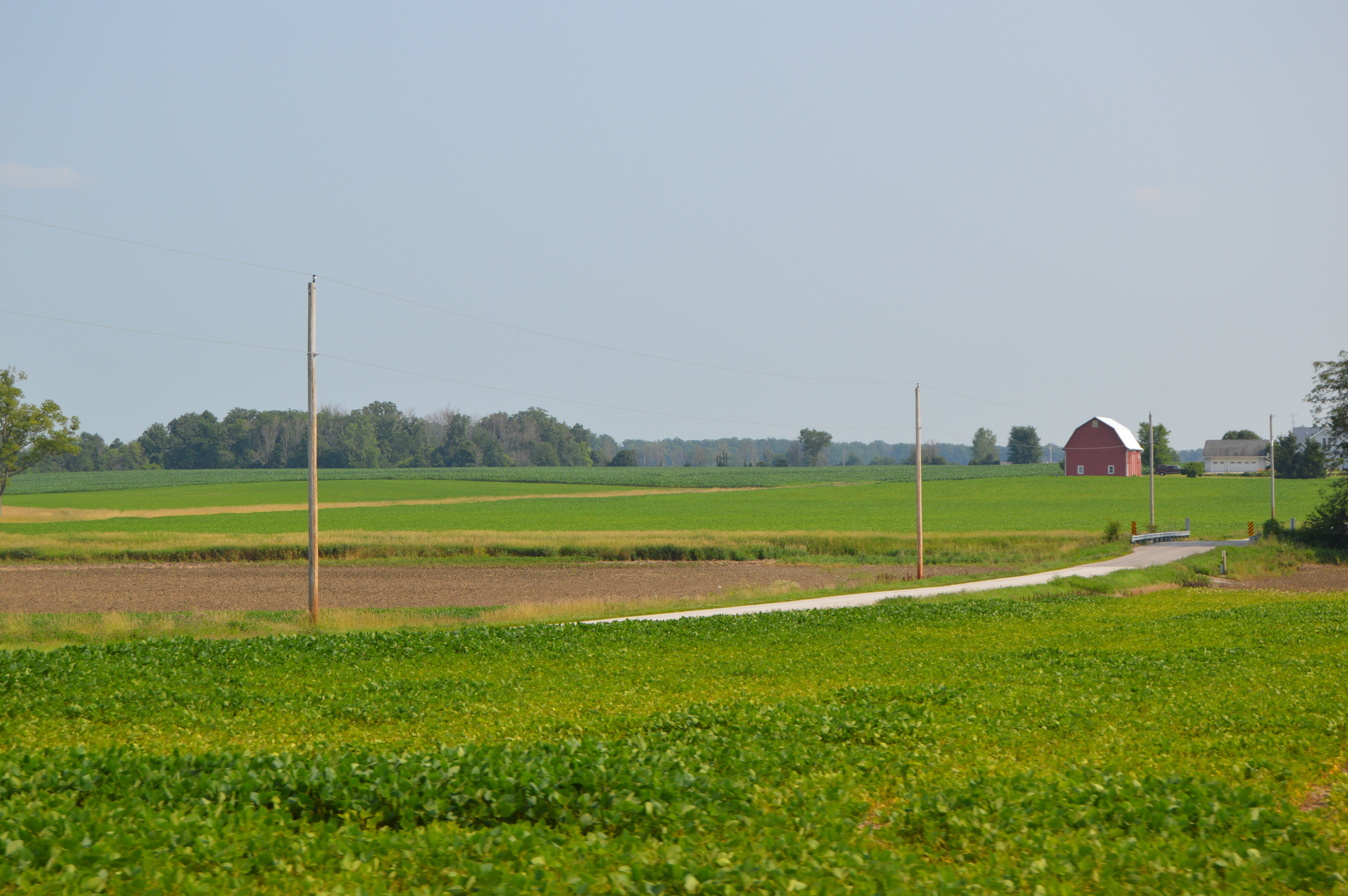 Looking south along Township Road 199 from the County Road 26 intersection south of Vanlue in Amanda Township, Hancock County, Ohio, United States.